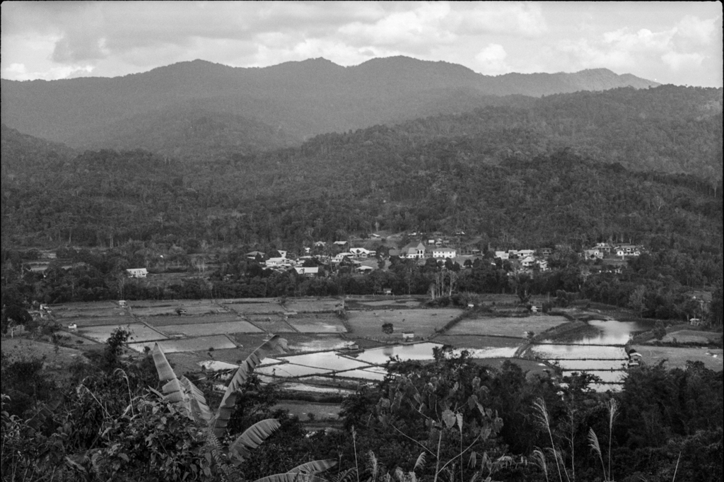 View of Long Tanid rice fields at the Lun Bawang village of Long Tanid, Sarawak.